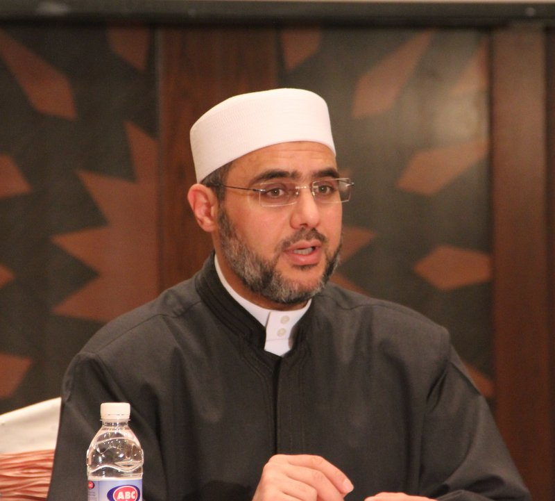 Saeed Fouda.